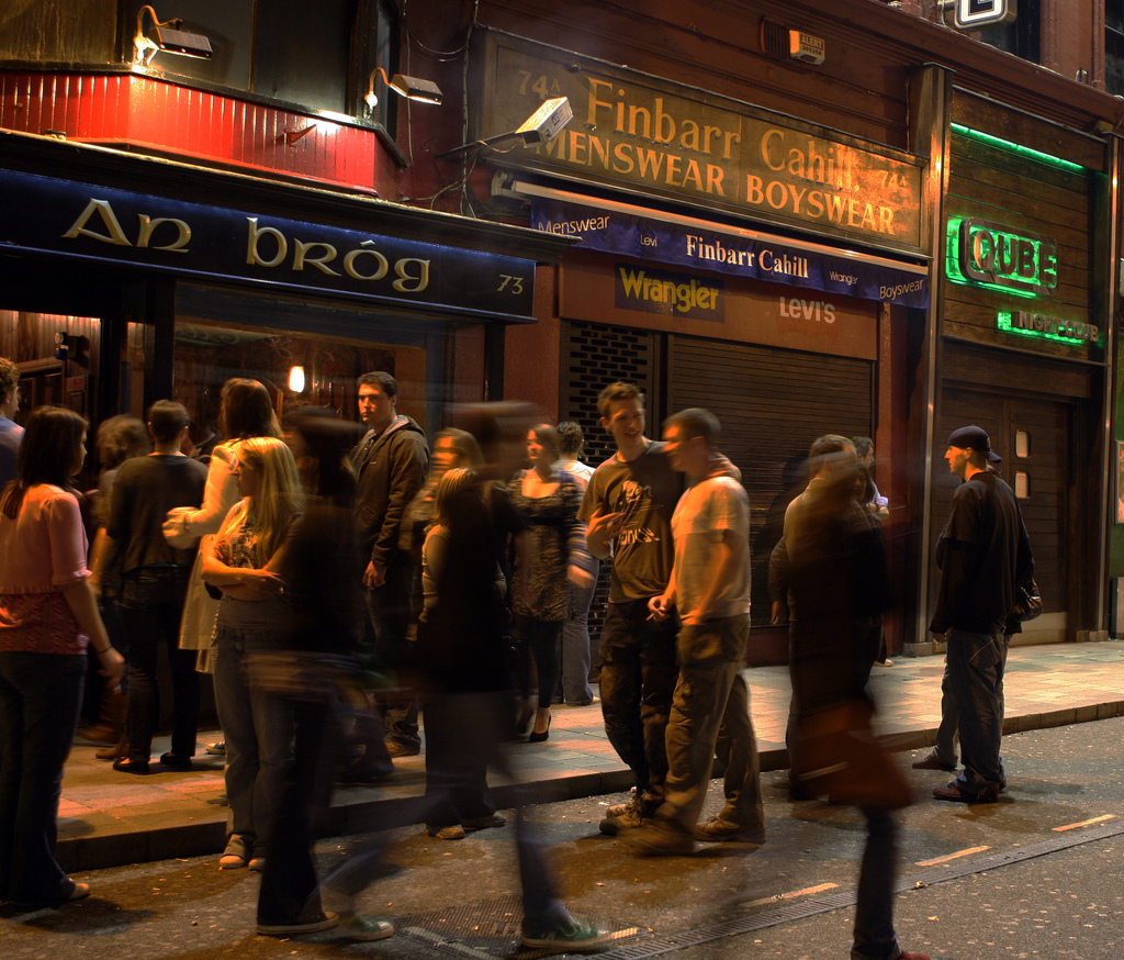 Night Life in Cork, Ireland, Cork